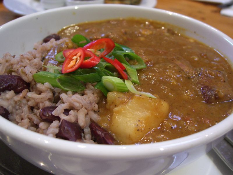 Curry goat with rice a peas (in this case kidney beans) from Babble on Babylon in Melbourne Australia. Photo by avlxyz (Flickr) attribution required